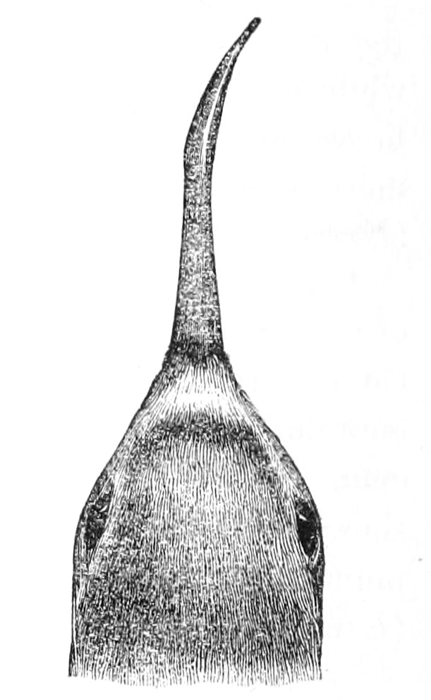 « Anarhynchus frontalis » = Anarhynchus frontalis (Wrybill) - head